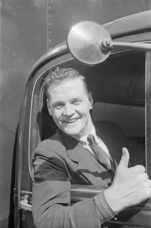 People at work in Wartime- Everyday Life in Wartime Britain, 1940 A smiling lorry driver gives a thumbs-up sign from the cab of his vehicle, somewhere in Britain, 1940.